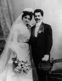 Jan Szczepanik (Polish inventor) with a new marred wife Marianna (maiden name: Mąsior).